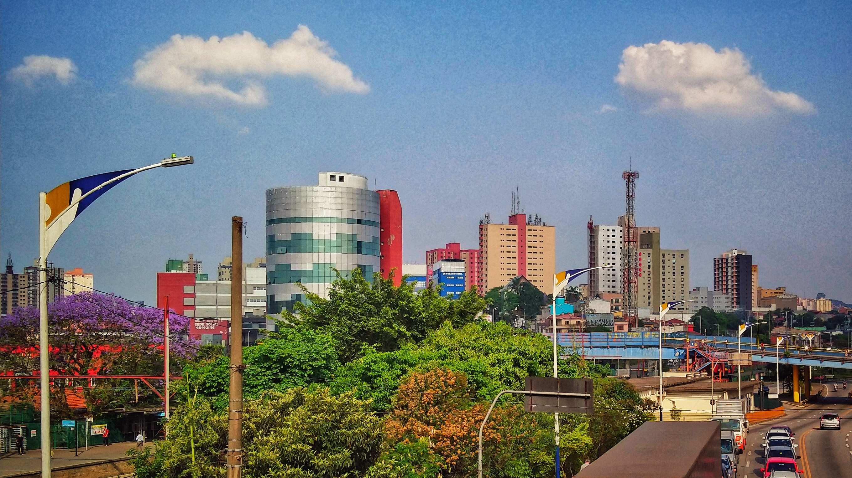 Partial view of downtown